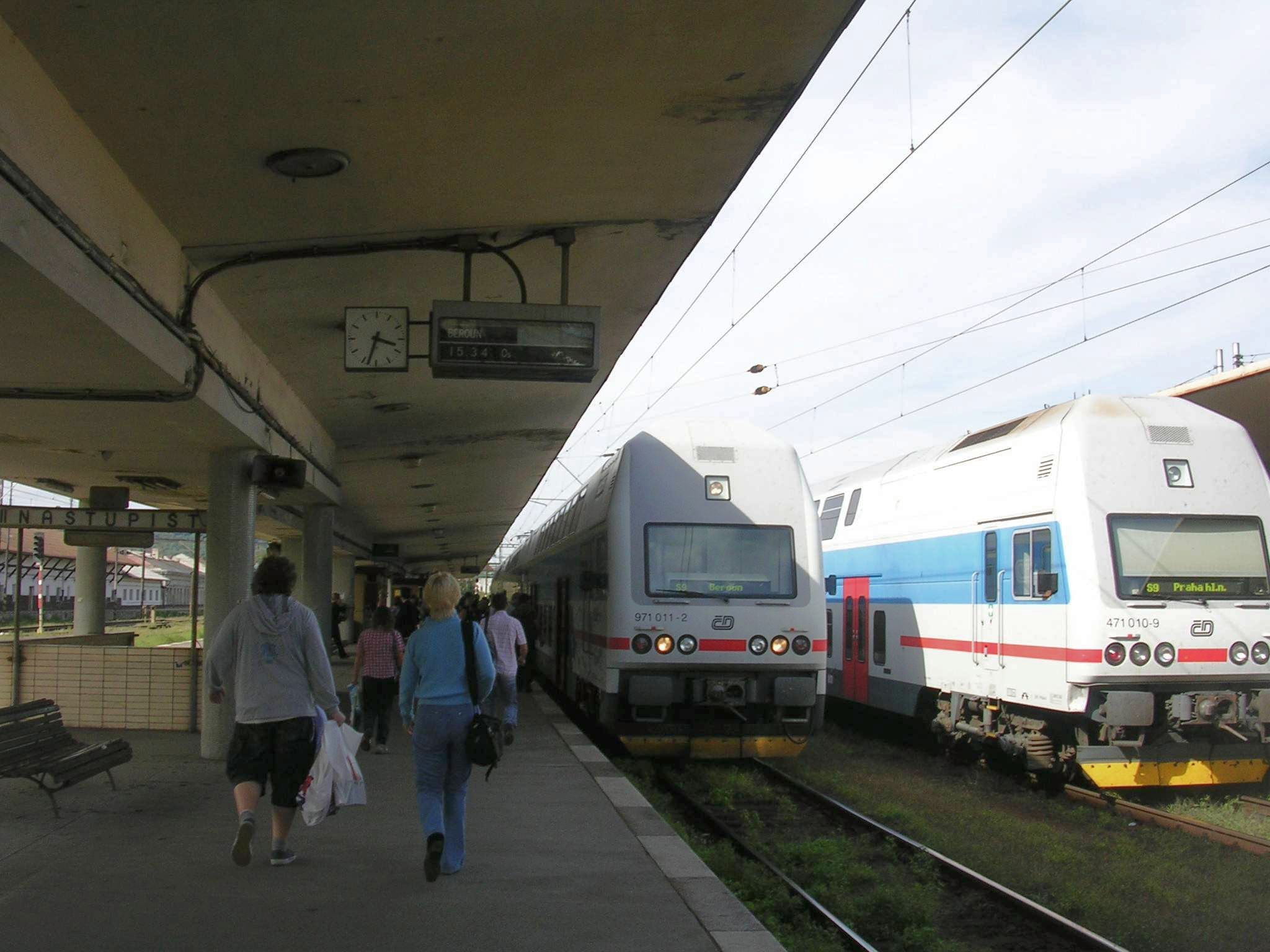 Smíchov, Prague, the Czech Republic. A train at Praha-Smíchov station.